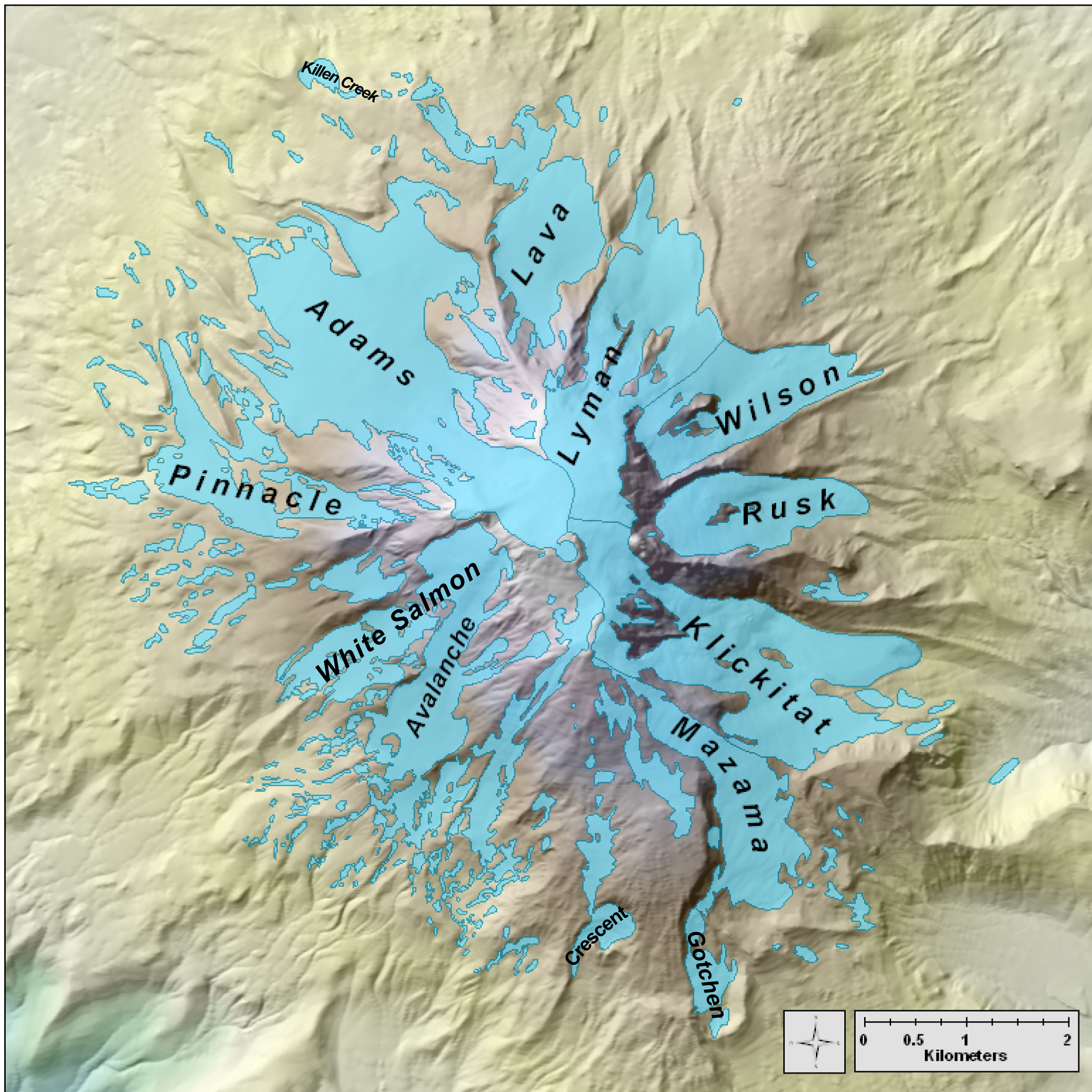 Provided by elevation data from the USGS. Link to image